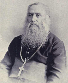 Paul Durieu Source: The Canadian album : men of Canada; or, Success by example, in religion, patriotism, business, law, medicine, education and agriculture; containing portraits of some of Canada's chief business men, statesmen, farmers, men of the learned professions, and others; also, an authentic sketch of their lives; object lessons for the present generation and examples to posterity (Volume 3) (1891-1896) Creator:Cochrane, William, 1831-1898 Creator:Hopkins, J. Castell (John Castell), 1864-1923 Publisher:Brantford, Ont. : Bradley, Garretson & Co. Date:1891-1896